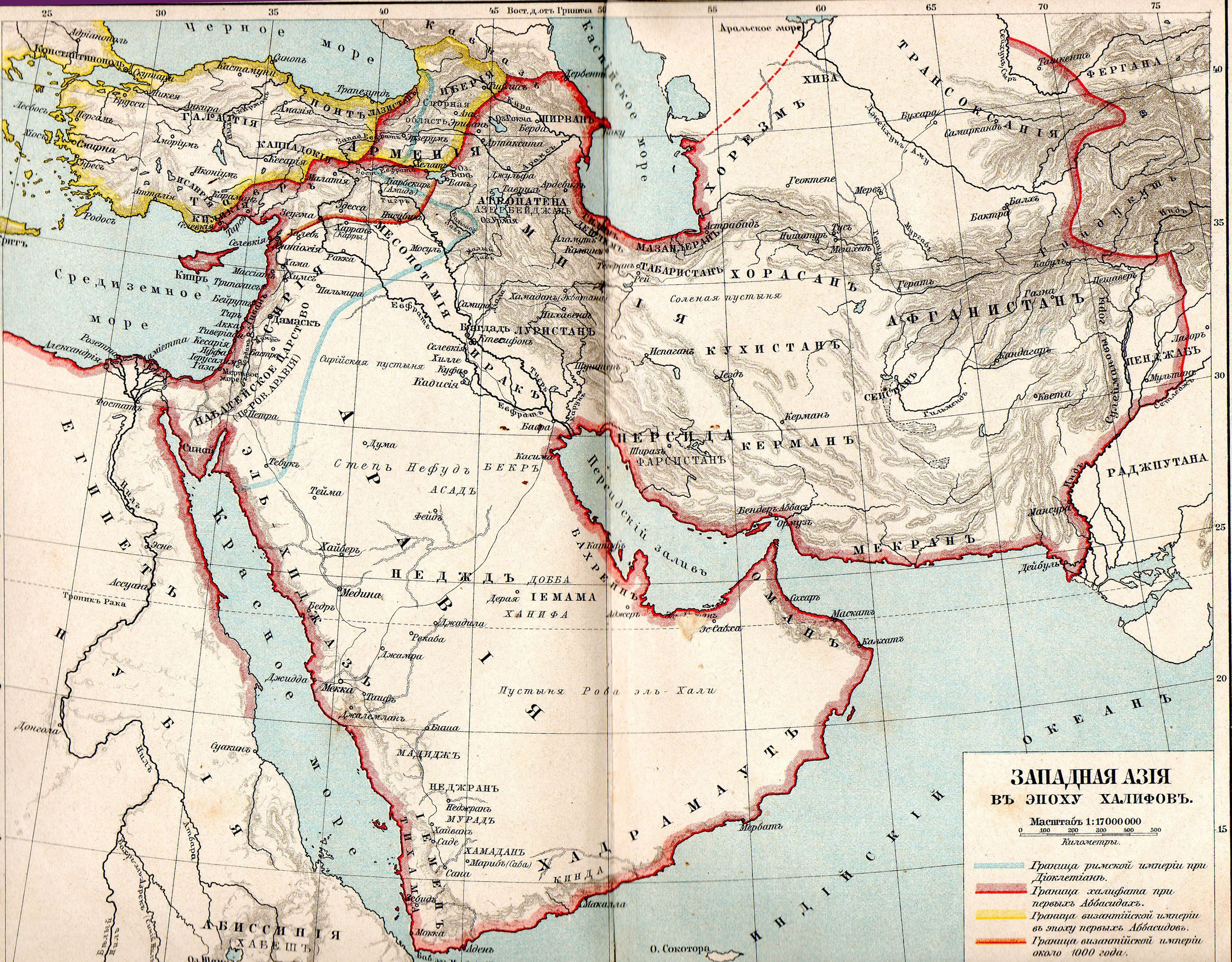 Map of the Western Asia during Caliphate.